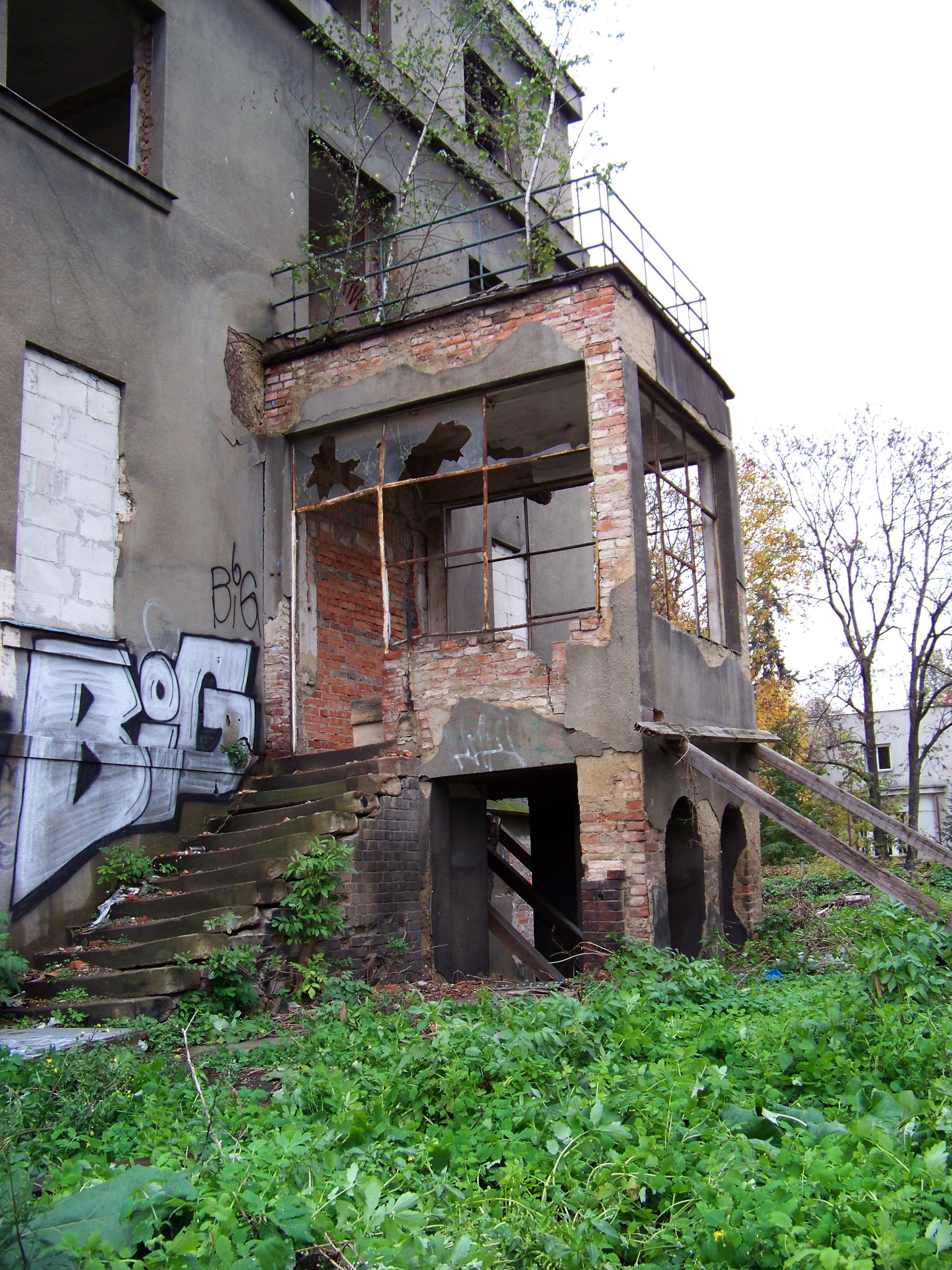 Prague-Bubeneč, the Czech Republic. Milady Horákové 179/102.